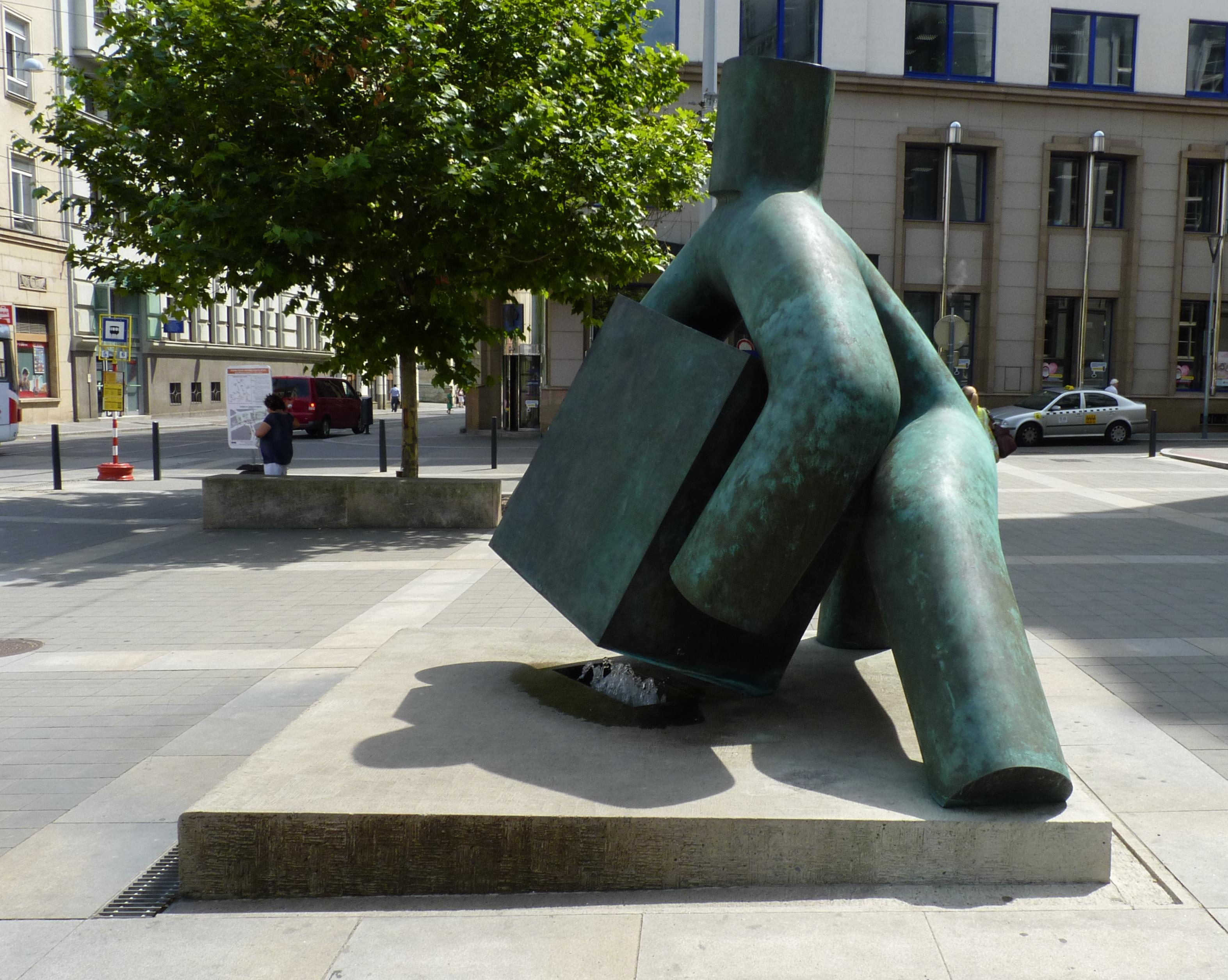 Statue "Spravedlnost", Brno, South Moravian Region, Czech Republic